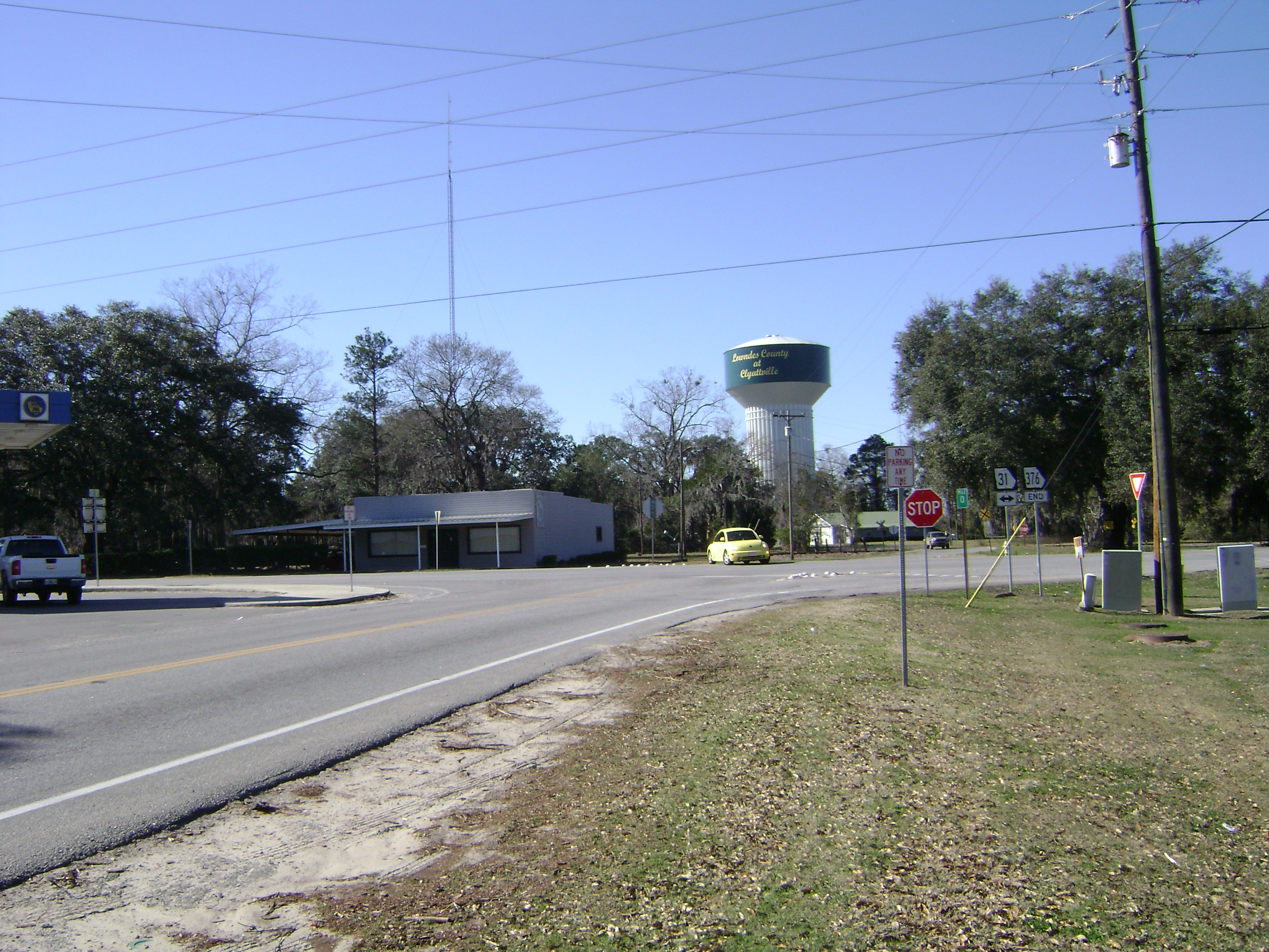 Looking WNW at western terminus of Georgia State Route 376 at Georgia State Route 31 (aka Madison Highway), Clyattville, Lowndes County, Georgia